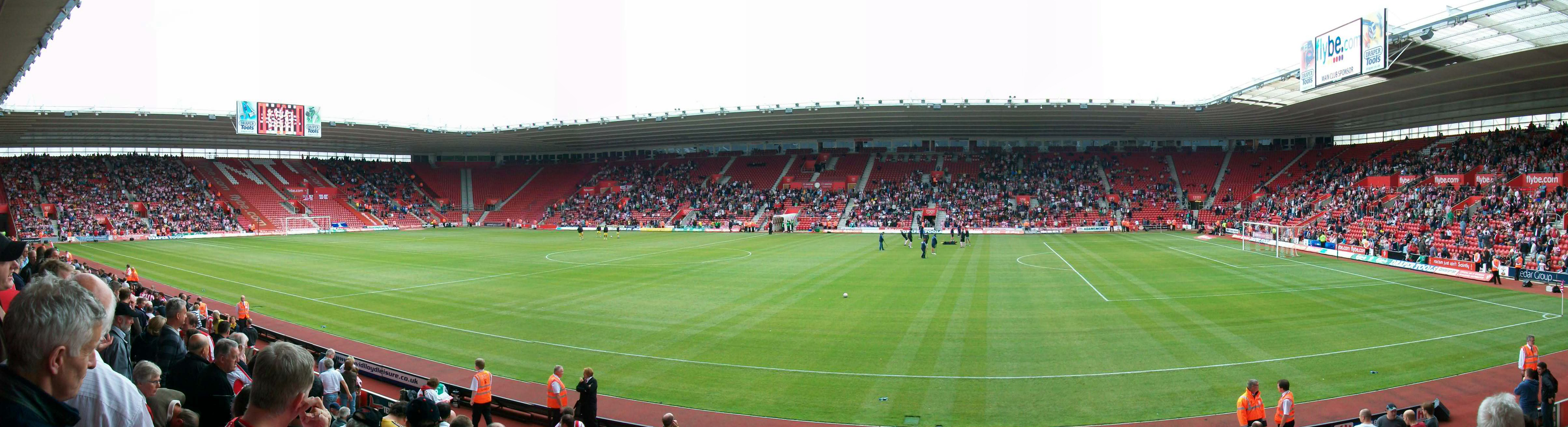 Panoramic view of St Mary's Stadium, home of Southampton Football Club, Hampshire, UK. Created by uploader on 5/9/09 during the home match vs Colchester United FC.